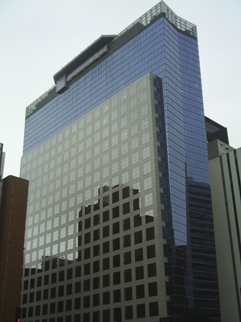 Building of Petrobras in Paulista avenue, in São Paulo City.